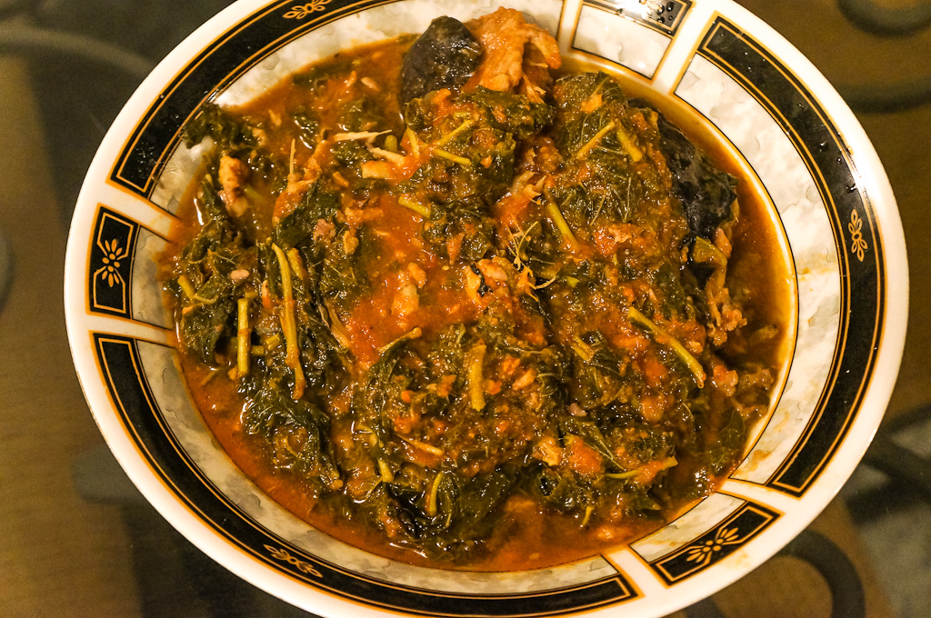 Catfish soup of NIgeria This is an image of food from Nigeria